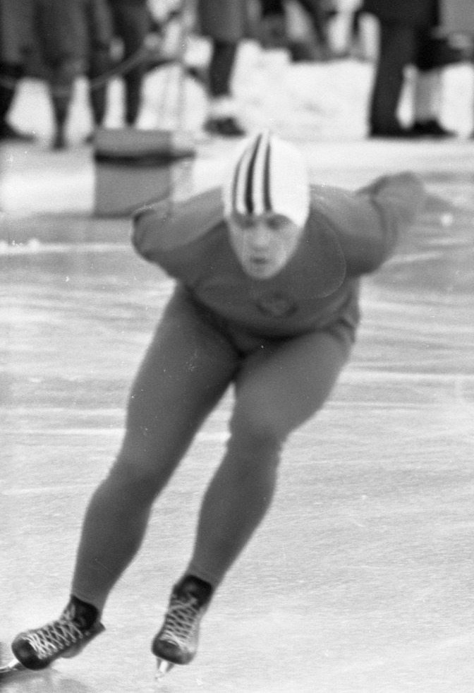 Europese Schaatskampioenschappen te Oslo, Boris Guljajev in aktie (Rusland)